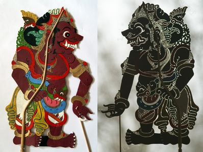 Jawes, wayang kulit figure from the epos Serat Menak Sasak